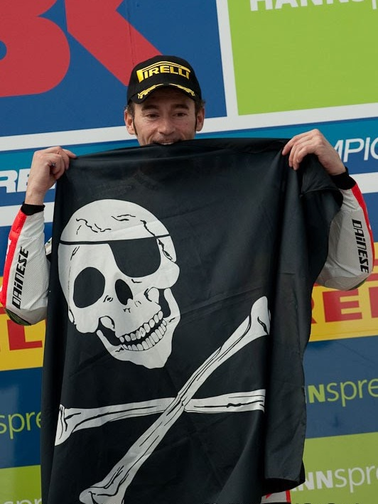 Max Biaggi 2010 SBK Miller